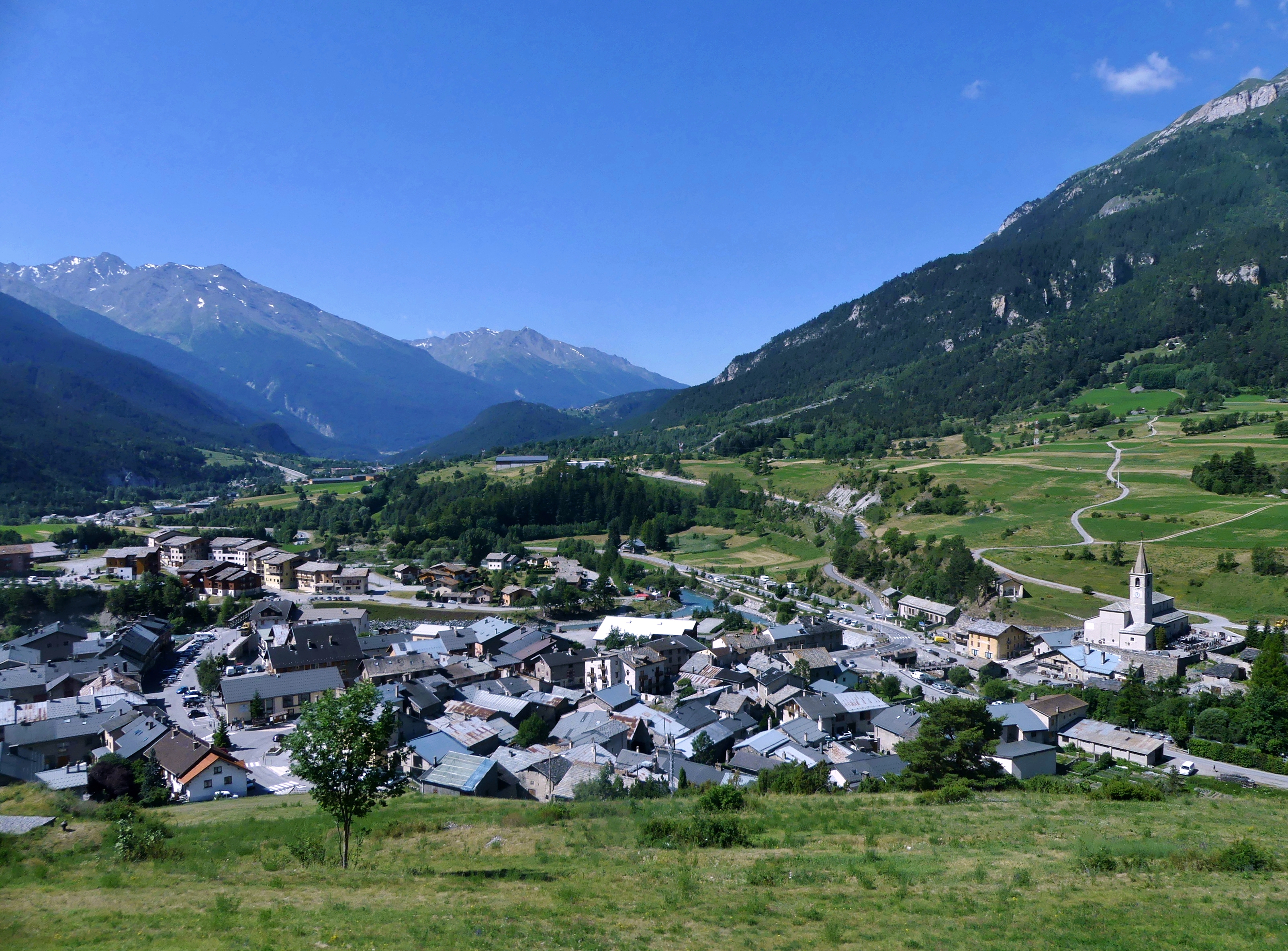 Panoramic sight of Termignon village, part of the commune of Val-Cenis, in the high Maurienne valley, in Savoie, France.